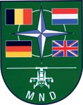 Internal coat of arms of the Bundeswehr (Armed Forces of the Federal Republic of Germany). → Remarks on naming and categorization scheme